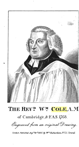 Image of a lithograph of William Cole, FAS. Printed 1812. engraved c.a. 1800. from a painting c.a. 1760. Printed in: Literary Anecdotes of the Eighteenth Century by John Nichols London, 1812 Volume 1, page 657 Found at: The picture itself is at